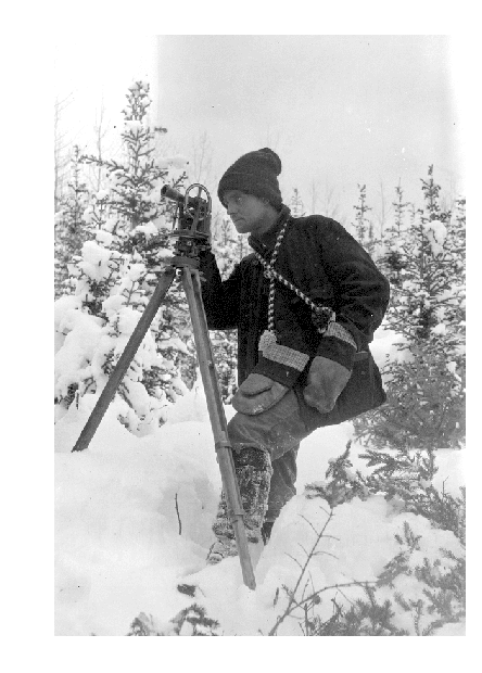 Frank Swannell. Photo taken 1910 (BC Archives)